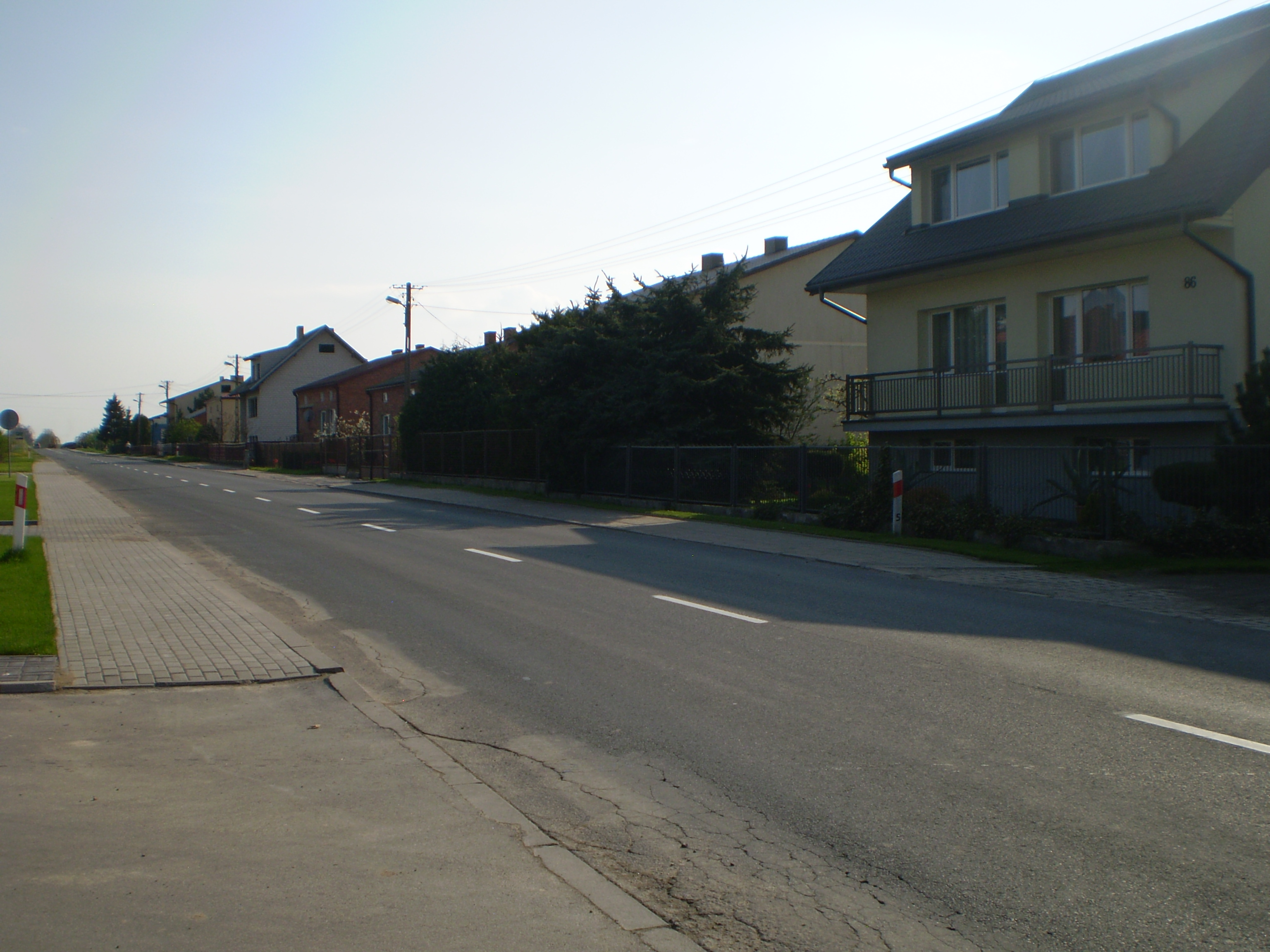 Zadzim